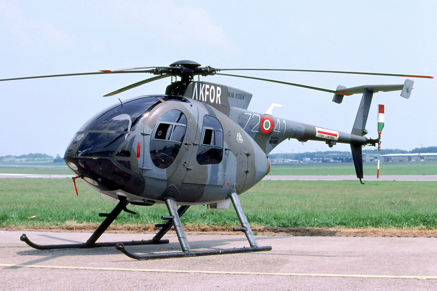 Bierset, 1 June 2003. The International Helidays, an airshow with only helicopters. Without even a demo of an F-16. This 'low noise', but fantastic event was held eight times between 1999 and 2007. There were two of these nice little choppers. The NH500Es of 208°Gr are based at Frosinone.